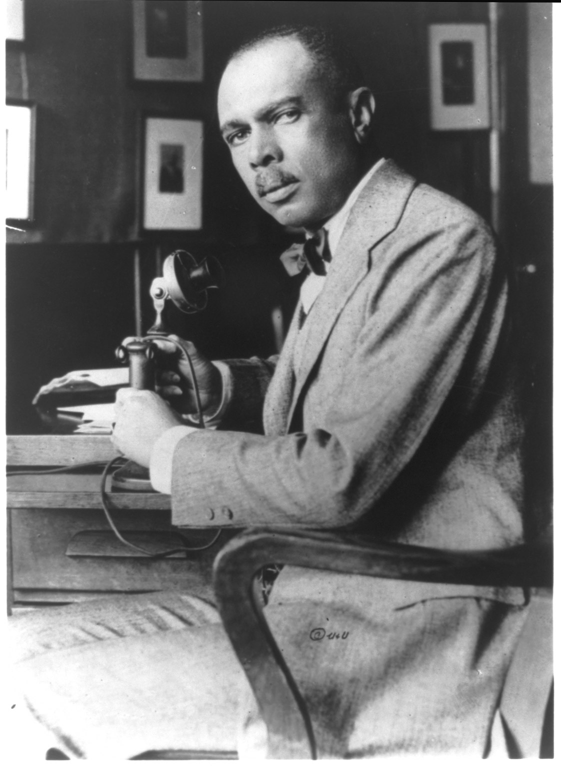 Title: James Weldon Johnson, half-length portrait at desk with telephone Abstract/medium: 1 photographic print.